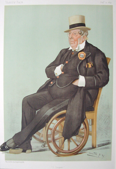 Caricature of Mr. John Loraine Baldwin (1809 - 1896), cricket and sporting rules enthusiast. Caption read "I Zingari". He was a co-founder of the I Zingari cricket club in 1845, wrote the first standardized rules for badminton in 1868, and edited "The Laws of Short Whist" of 1864.